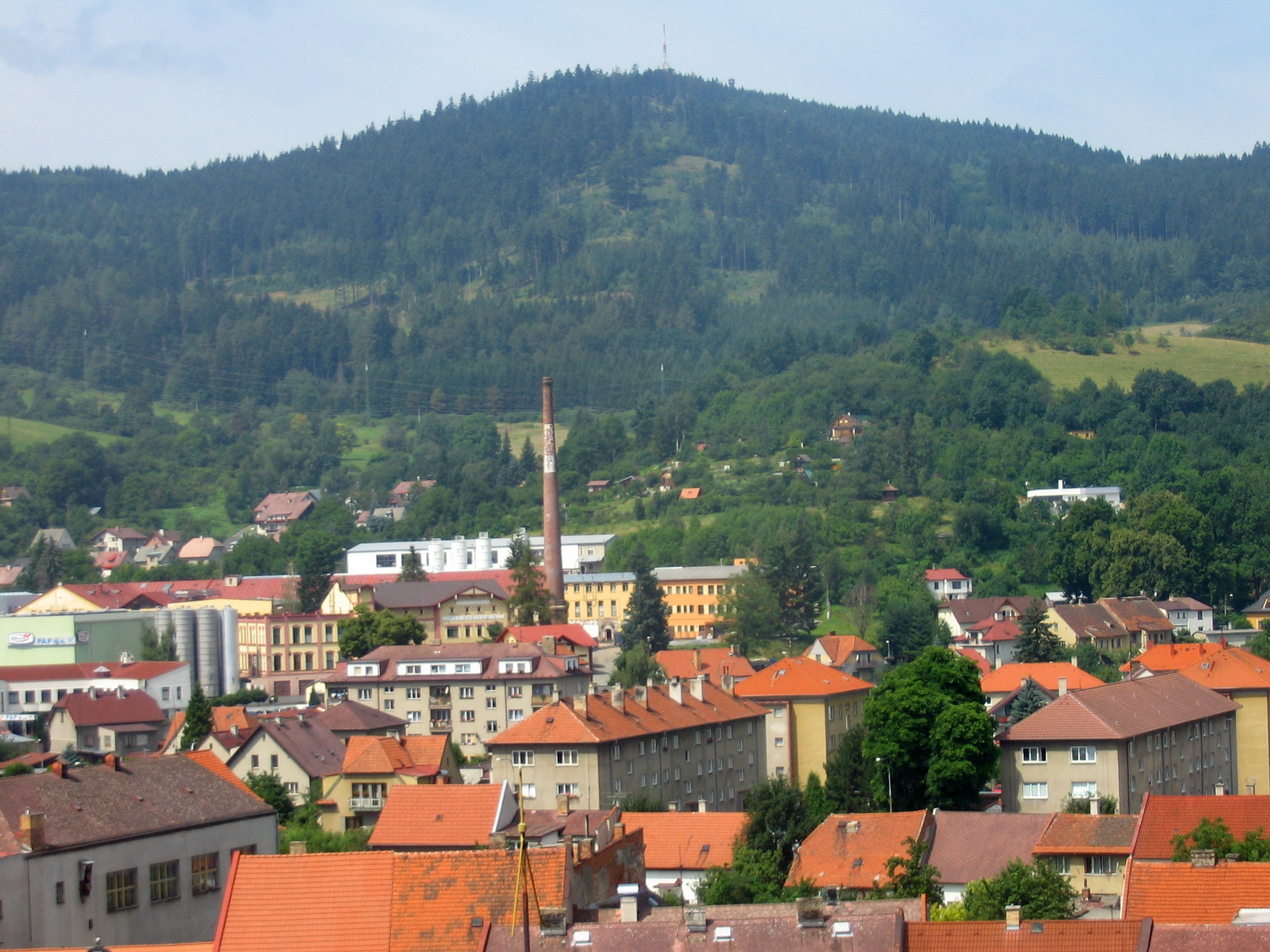 View from the town hall in Sušice to the west with buildings of PAP (food containers producer) in the middle and Svatobor (845 m) in the background, Klatovy District, Czech Republic